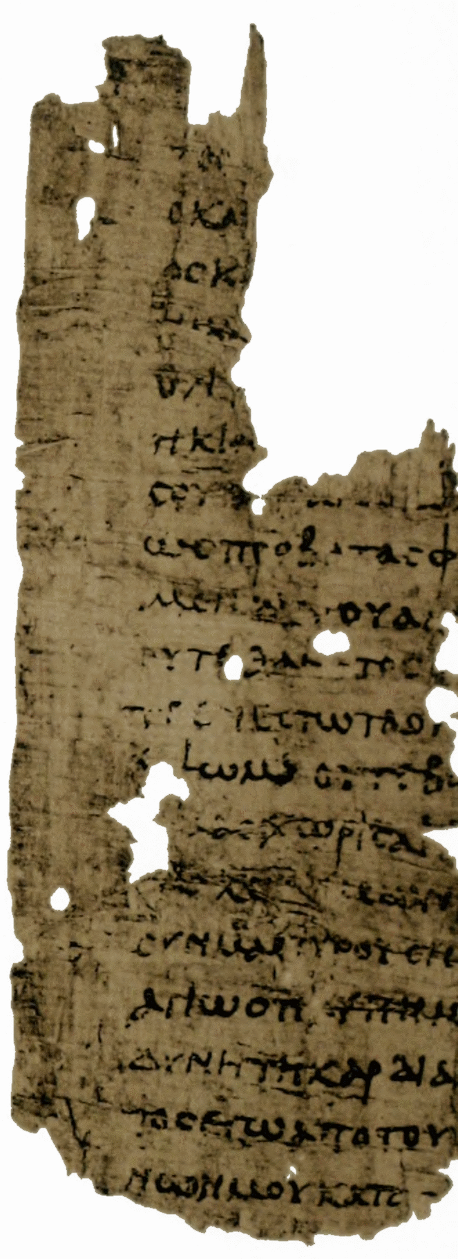 Papyrus manuscript of Paul's epistle to the Romans. Papyrus 27, No. 1355 of the Oxyrhynchus Papyri, consists of 2 fragments, this is the recto side of the first and largest fragment. It is dated to the early 3rd century.